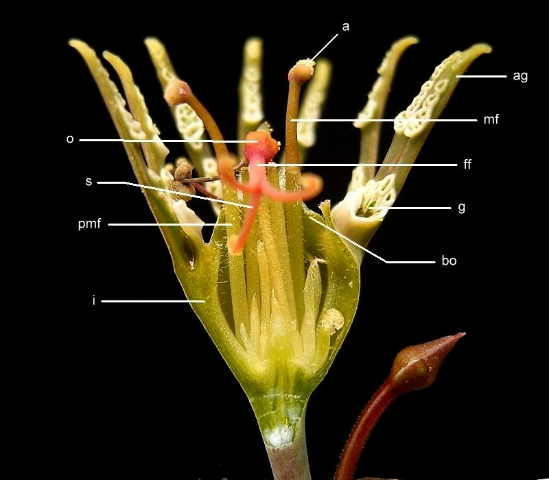 Euphorbia tridentata, cross-section of a cyathium b Bract i Involucre g Gland ag Appendage of the gland bo Bracteole mf Male flower jmf Juvenile male flower a Anthere pmf Pedicel of the male flower ff Female flower o Ovary s Style pff Pedicel of the female flower